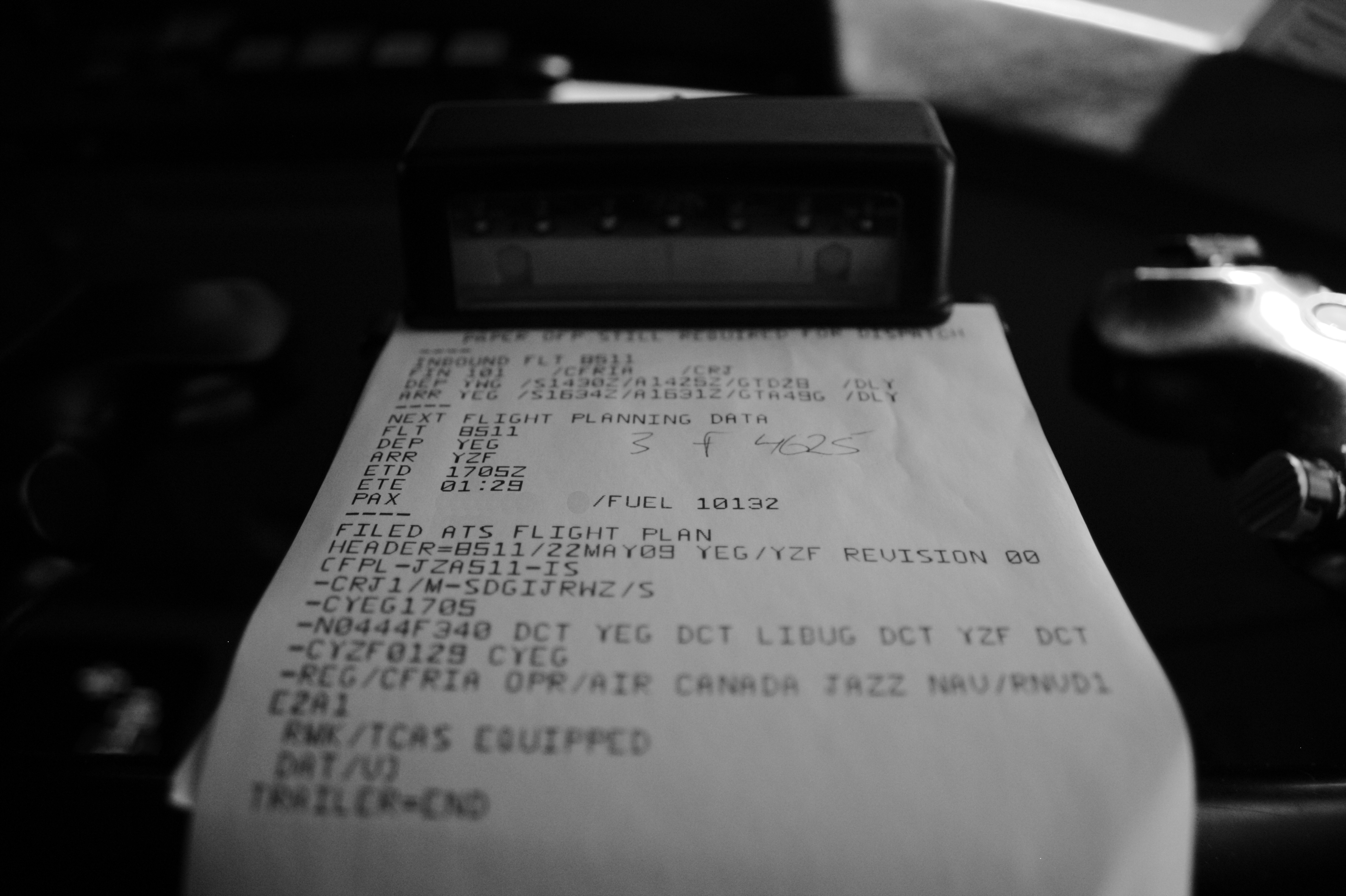 We get these info sheets about the next flight shortly after we park at the gate. You can see where I've scribbled our IFR clearance. "Edmonton 3 departure, flight plan route, squawk 4625" __ Transcript (rough): PAPER OFF STILL REQUIRED FOR DISPATCH ---- INBOUND FLT 0511 FIN 101 /CFRIA /CRJ DEP YHG /S1430Z/A1425Z/GTD2B /DLY ARR YEG /S1634Z/A1631Z/GTA49G /DLY ---- NEXT FLIGHT PLANNING DATA FLT 8511 DEP YEG ARR YZF ETD 1705Z ETE 01:29 PAX /FUEL 10132 ---- FILED ATS FLIGHT PLAN HEADER=8511/22MAY09 YEG/YZF REVISION 00 (FPL-JZA511-IS -CRJ1/M-SDGIJRWZ/S -CYEG1705 -N0444F340 DCT YEG DCT LIBUG DCT YZF DCT -CYZF0129 CYEG -REG/CFRIA OPR/AIR CANADA JAZZ NAV/RNVD1 E2A1 RWK/TCAS EQUIPPED DAT/V) TRAILER-END